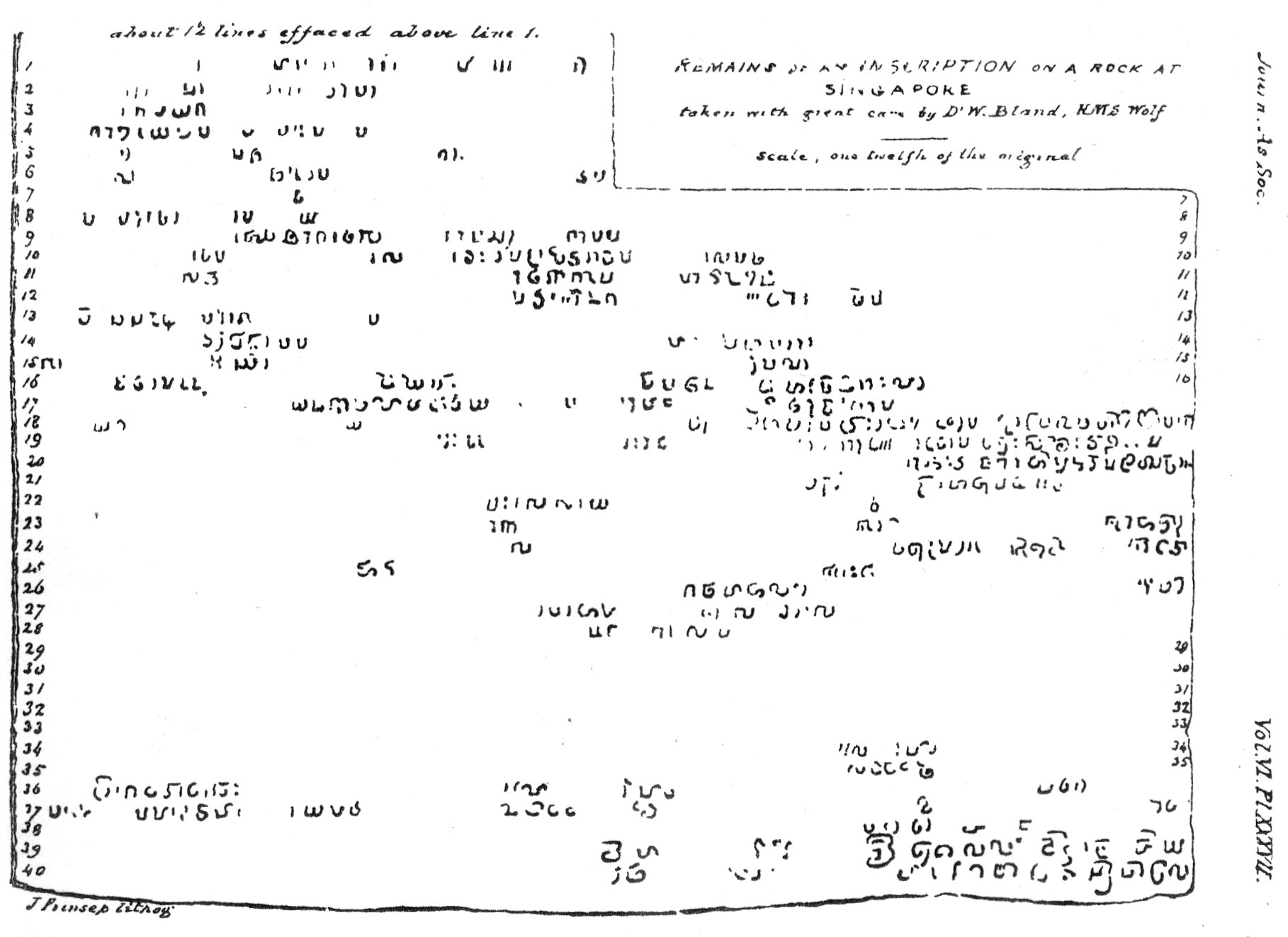 A lithograph by James Prinsep of Dr. William Bland's transcription of the inscription on the sandstone block at the Singapore River mouth, a fragment of which is now known as the Singapore Stone. The title of the lithograph is: "Remains of an inscription on a rock at Singapore taken with great care by Dr W. Bland, H.M.S. Wolf. Scale, one twelfth of the original."